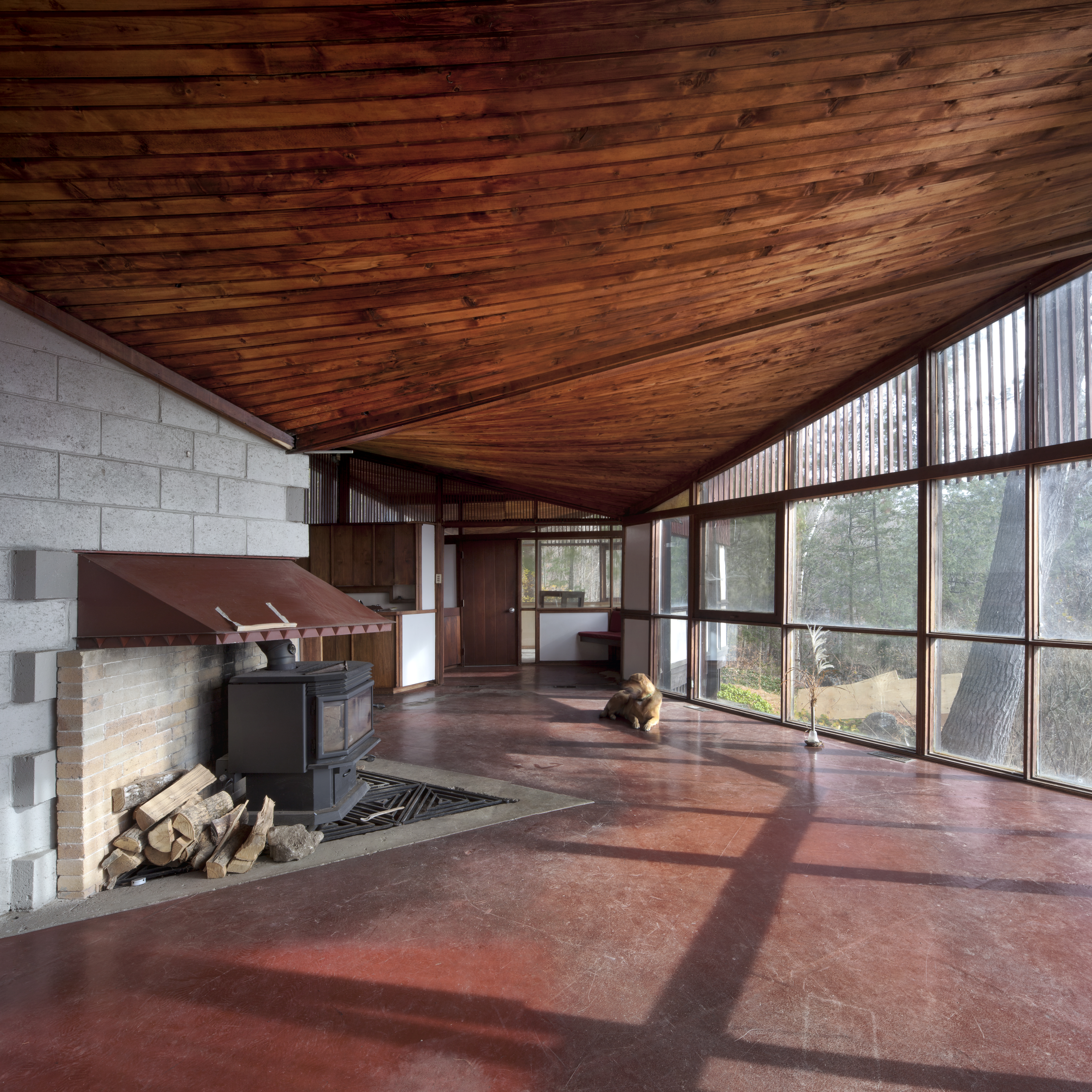 Strutt House 01